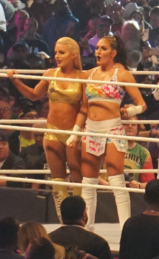 Divas in the ring for a battle royal.